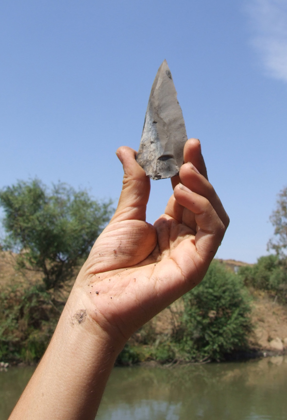 Flint Point NMO excavation